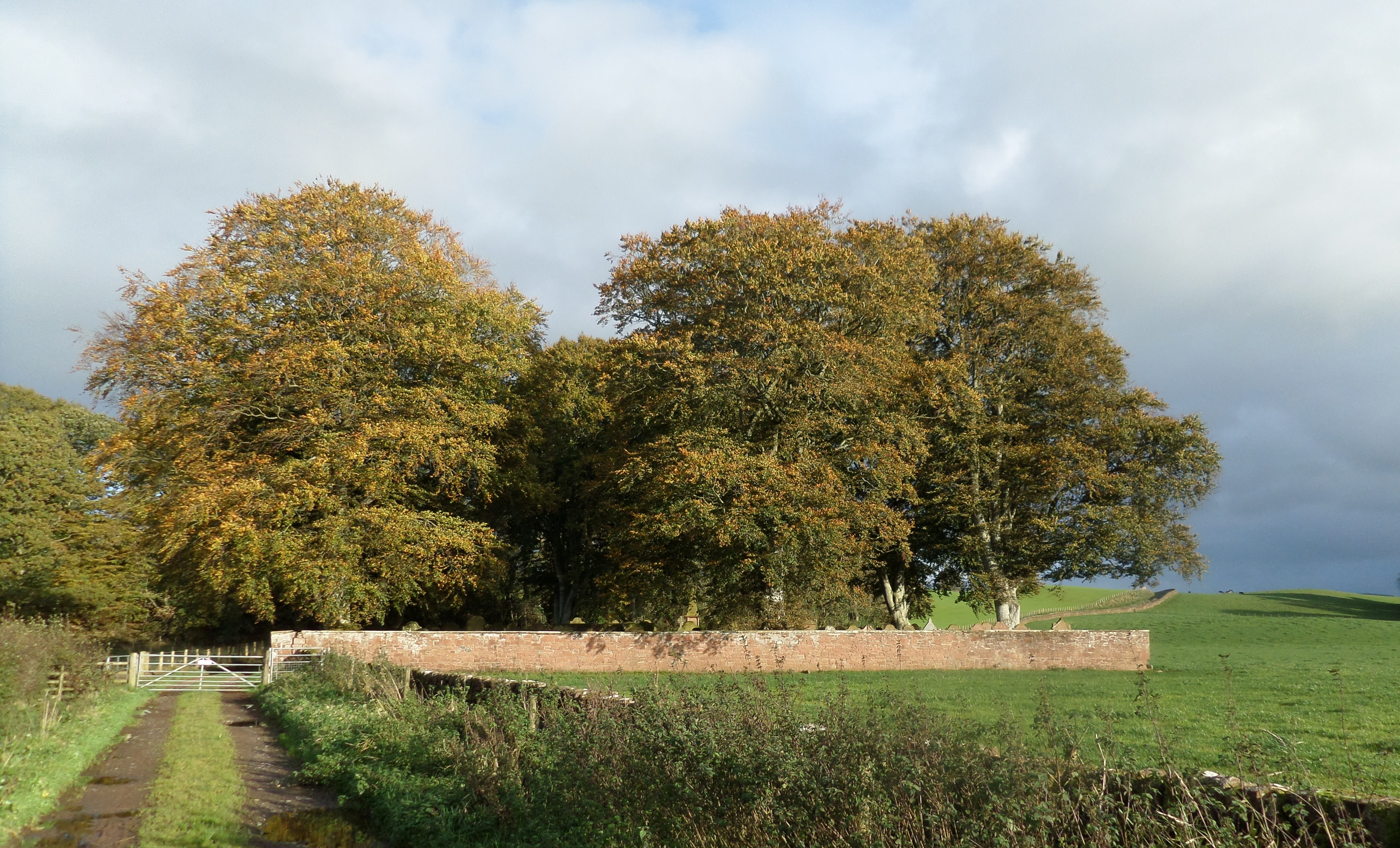 Dalgarnock burial ground, Thornhill, Dumfries & Galloway. Site of a kirk with a village once located nearby together with St Ninian's Well.